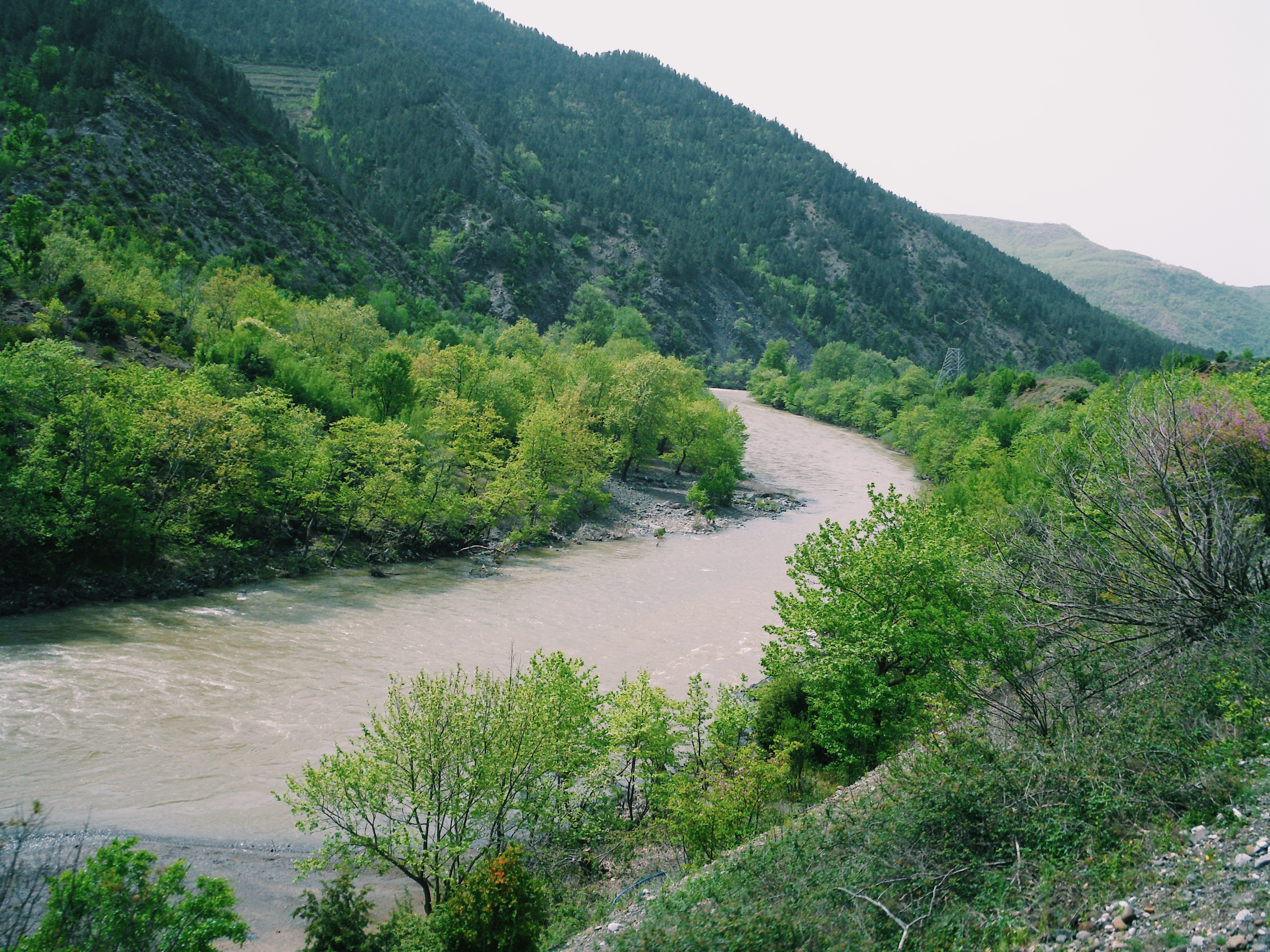 The valley of the Shkumbin river in Albania, as seen from a train between Elbasan and Librazhd